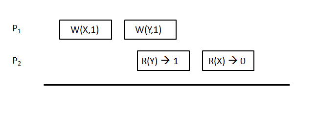 Figure 1. Slow Memory